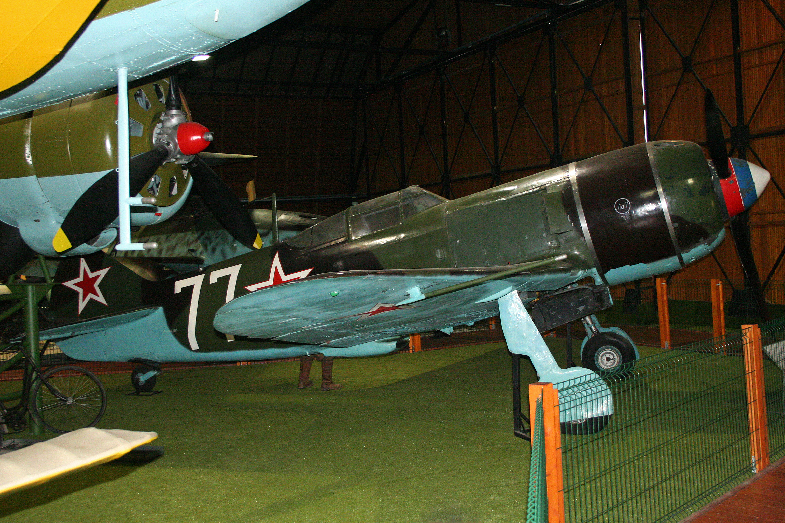 On display in the WW2 hangar. Kbely Museum, Czech Republic. 07-10-2012